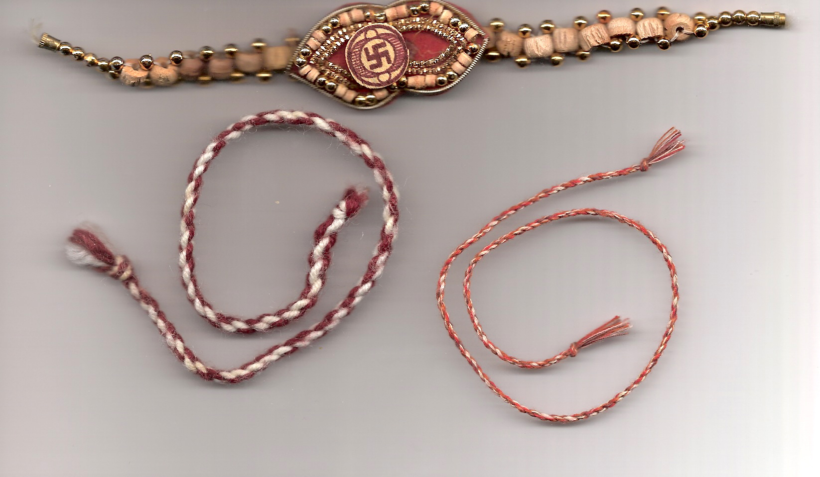 A sampling of rakhis. Image by self -- Samir धर्म 01:30, 9 August 2006 (UTC)